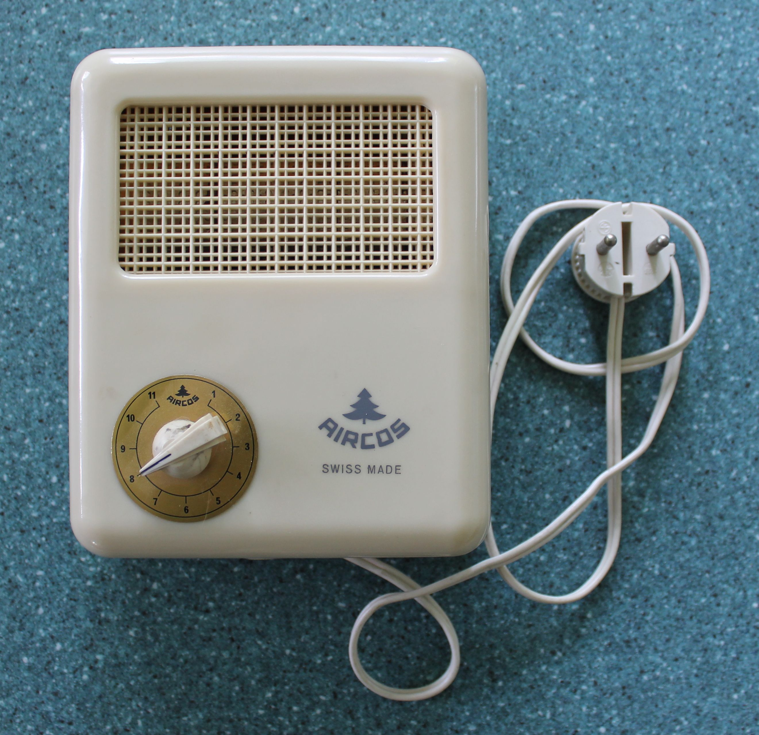 Room ozonizer, 1960ies